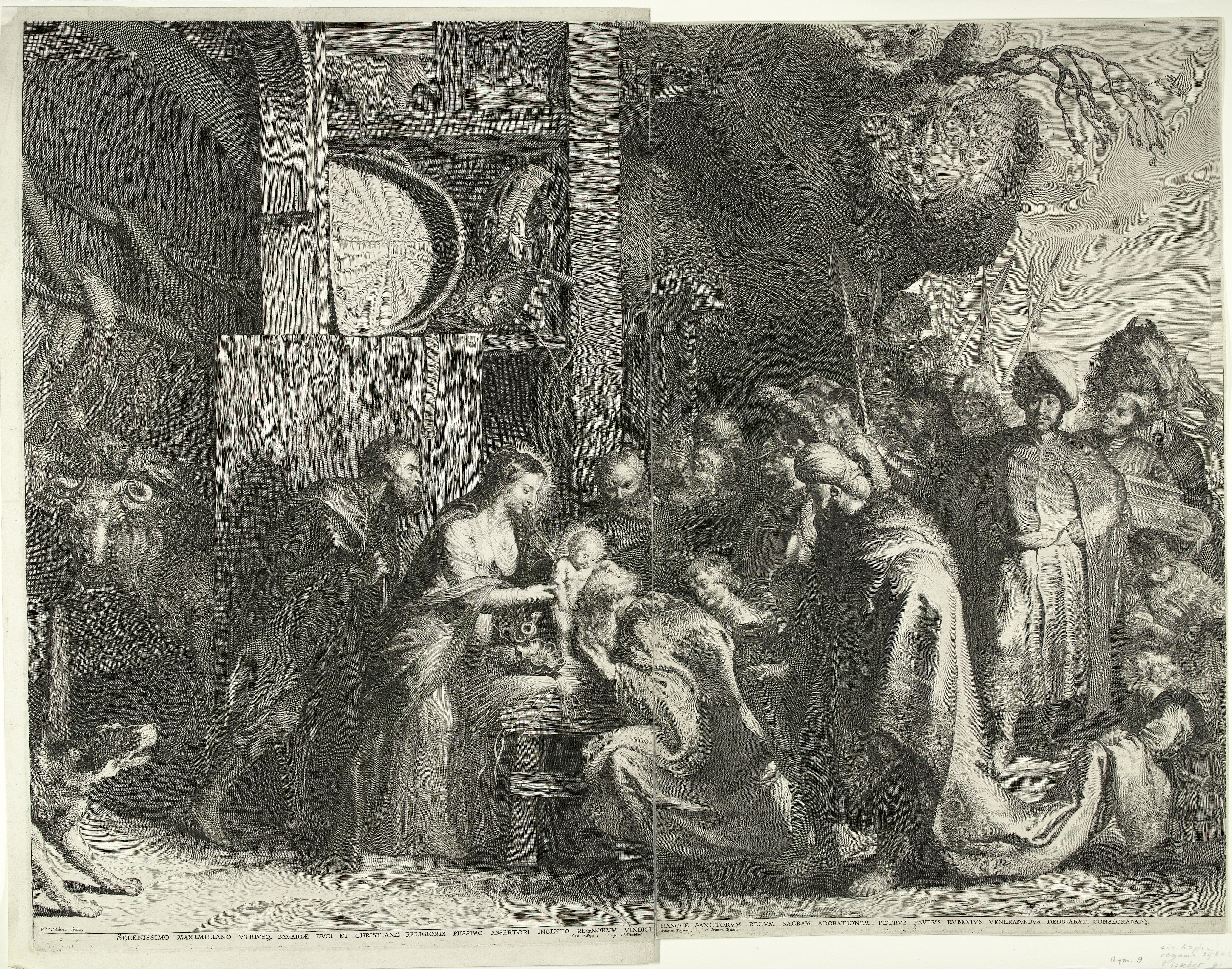 Adoration of the Magi, Lucas Vorsterman (I) after Peter Paul Rubens, 1621, engraving on two plates, 570 by 386 mm and 554 by 355 mm